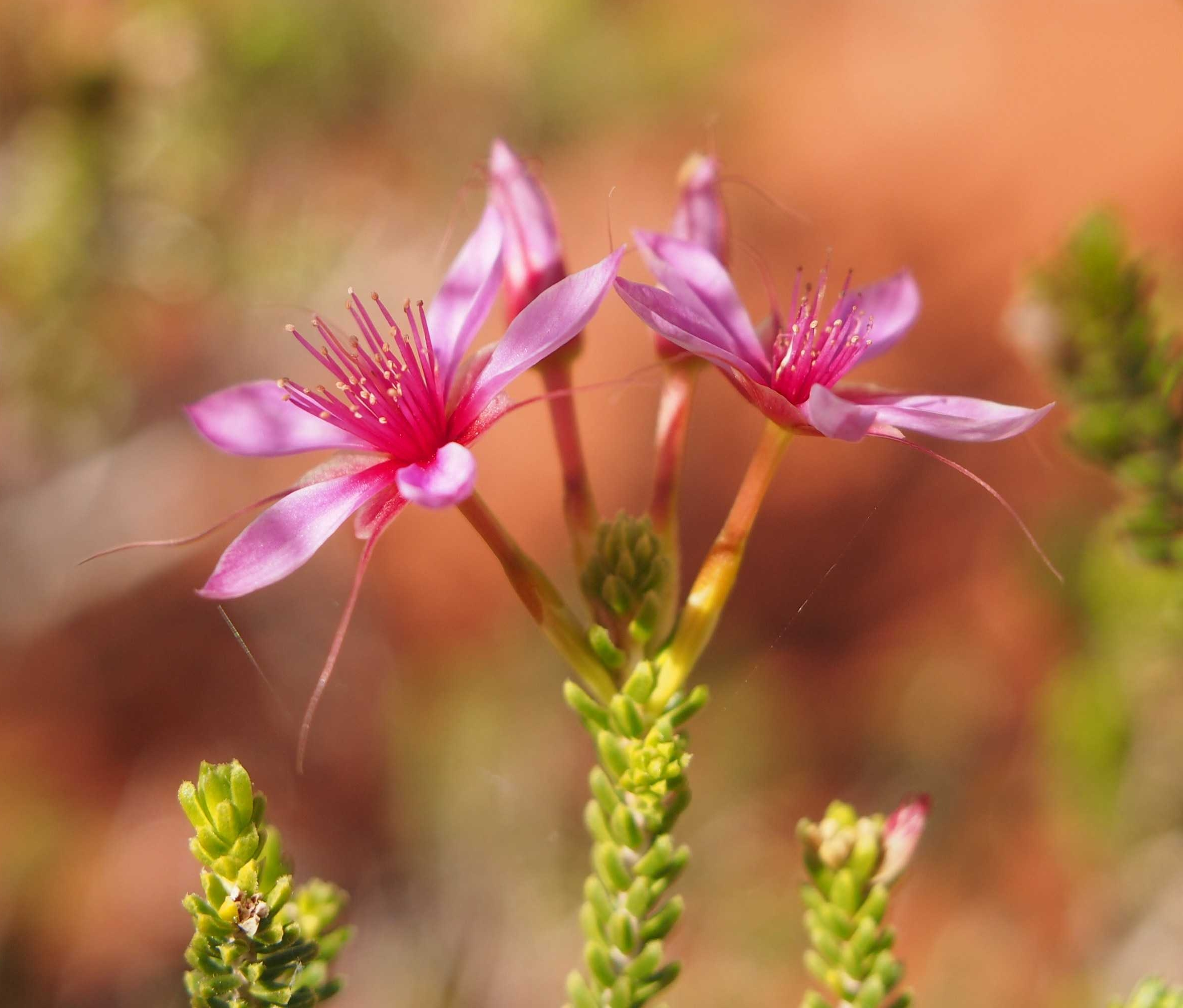 Calytrix longiflora flowers